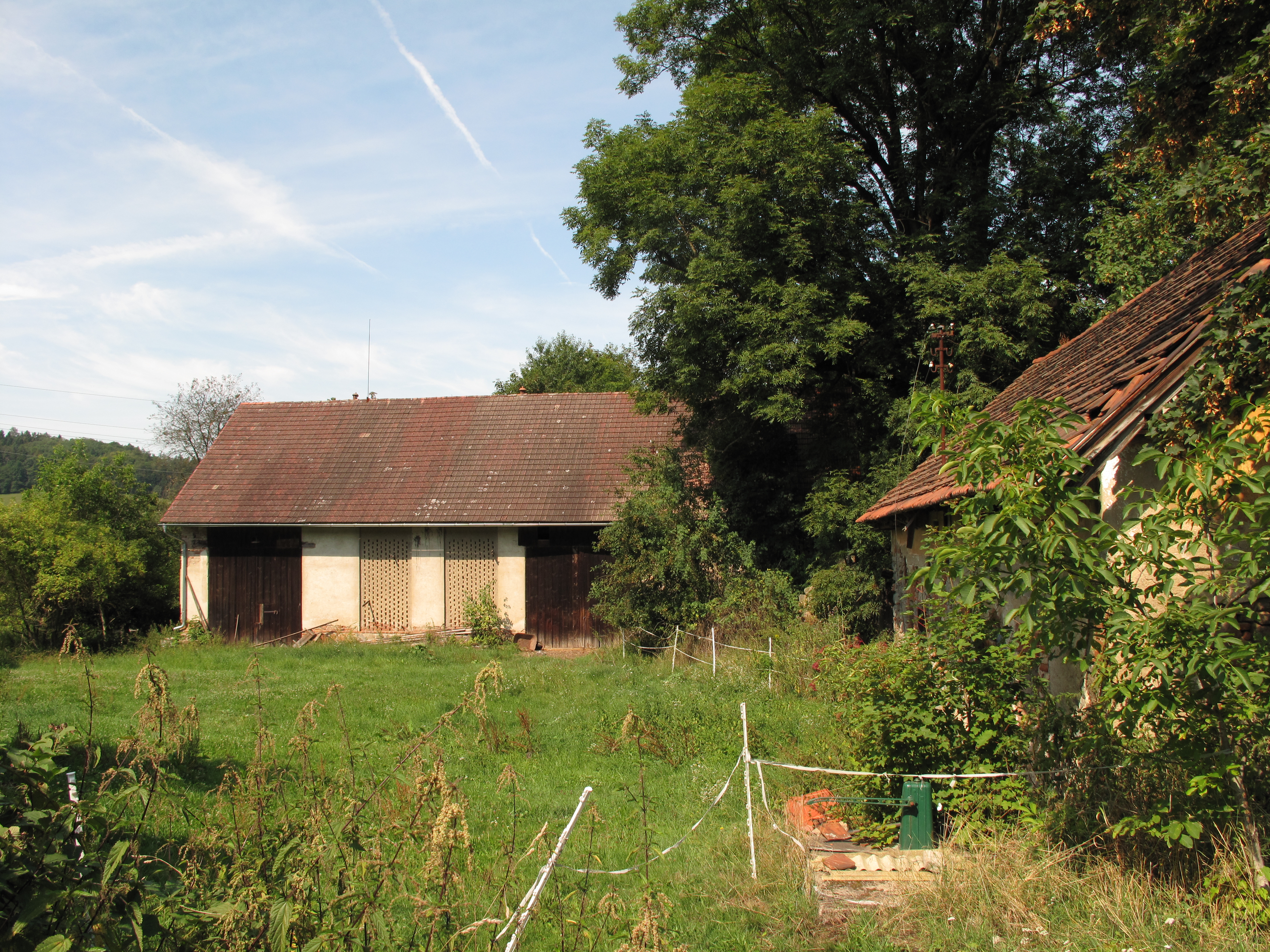 Barn in Dub village, Prague-East District, Czech Republic.